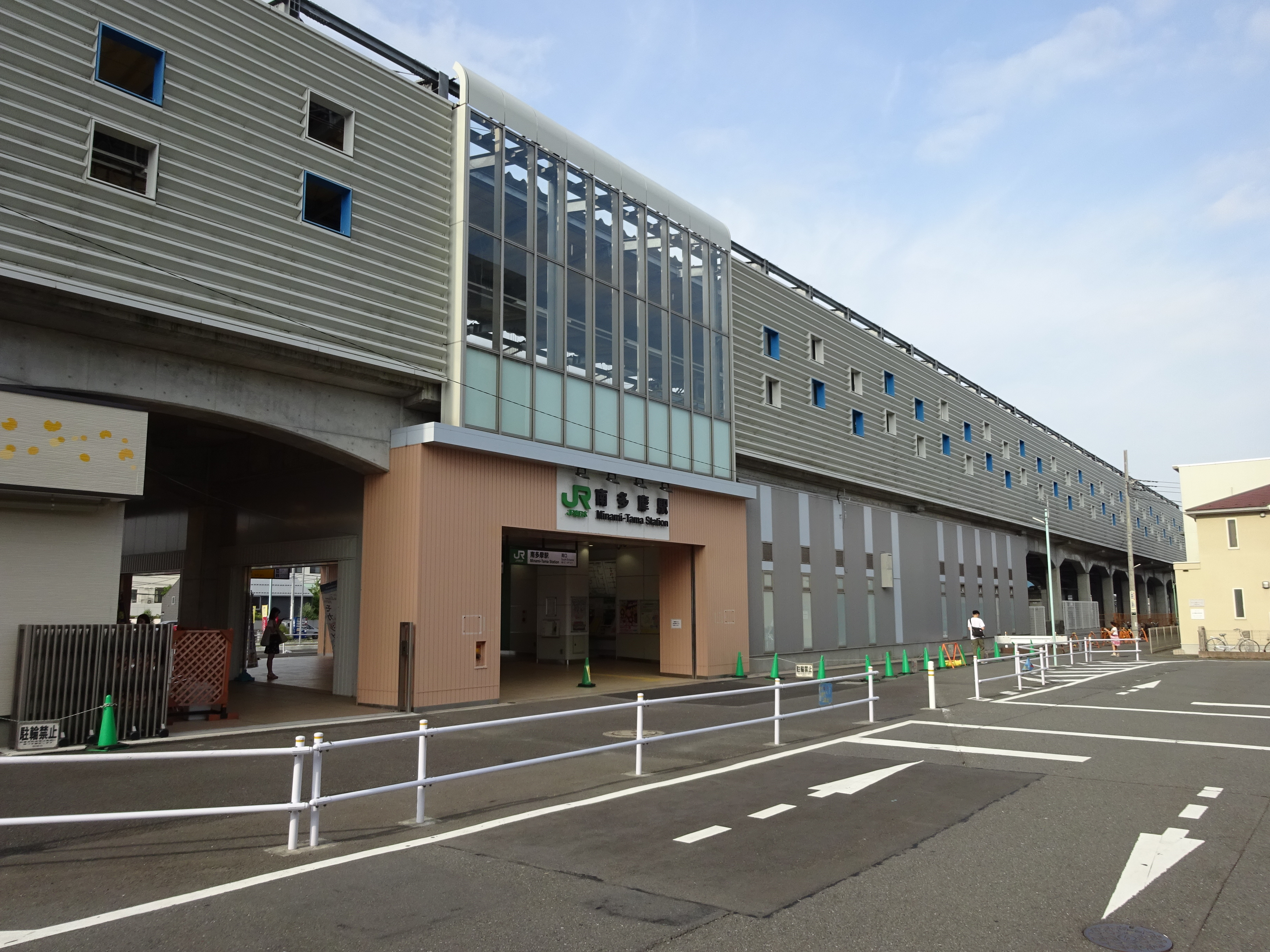 South Entrance of Minami-Tama Station